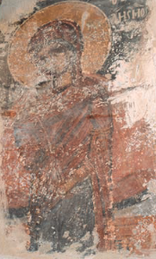 Saint Mary Church in Peshkëpi 17 Century